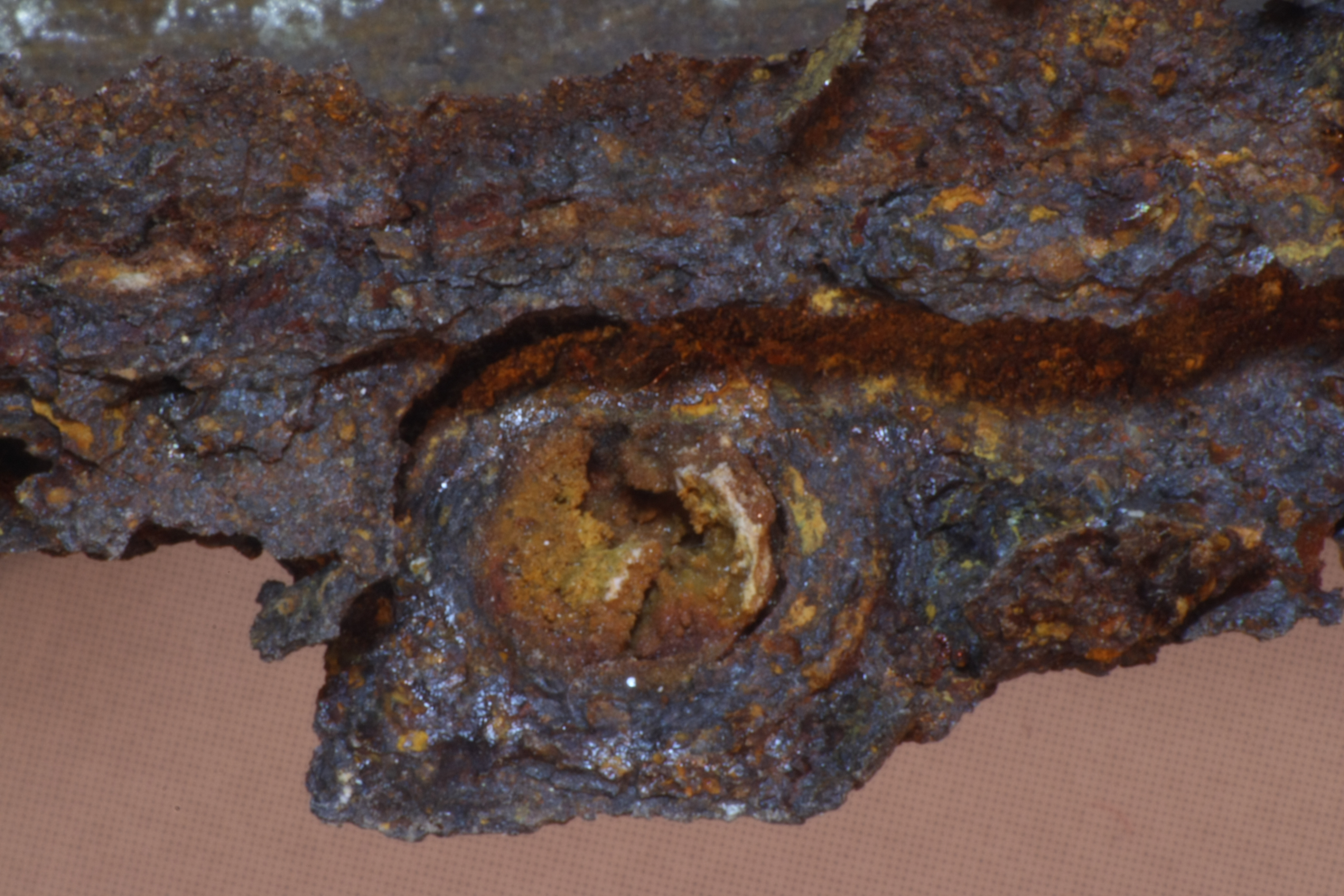 Rust